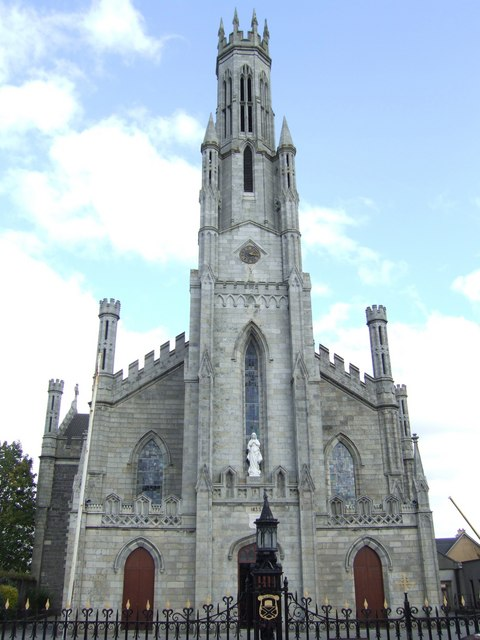 Carlow Cathedral The building of the Cathedral started in 1828 and completed in 1833. It is gothic in design. Thomas Cobden was the main architect. The magnificent tower and lantern, reaching 46 metres, was inspired by the cloth Hall at Bruges in Belgium.